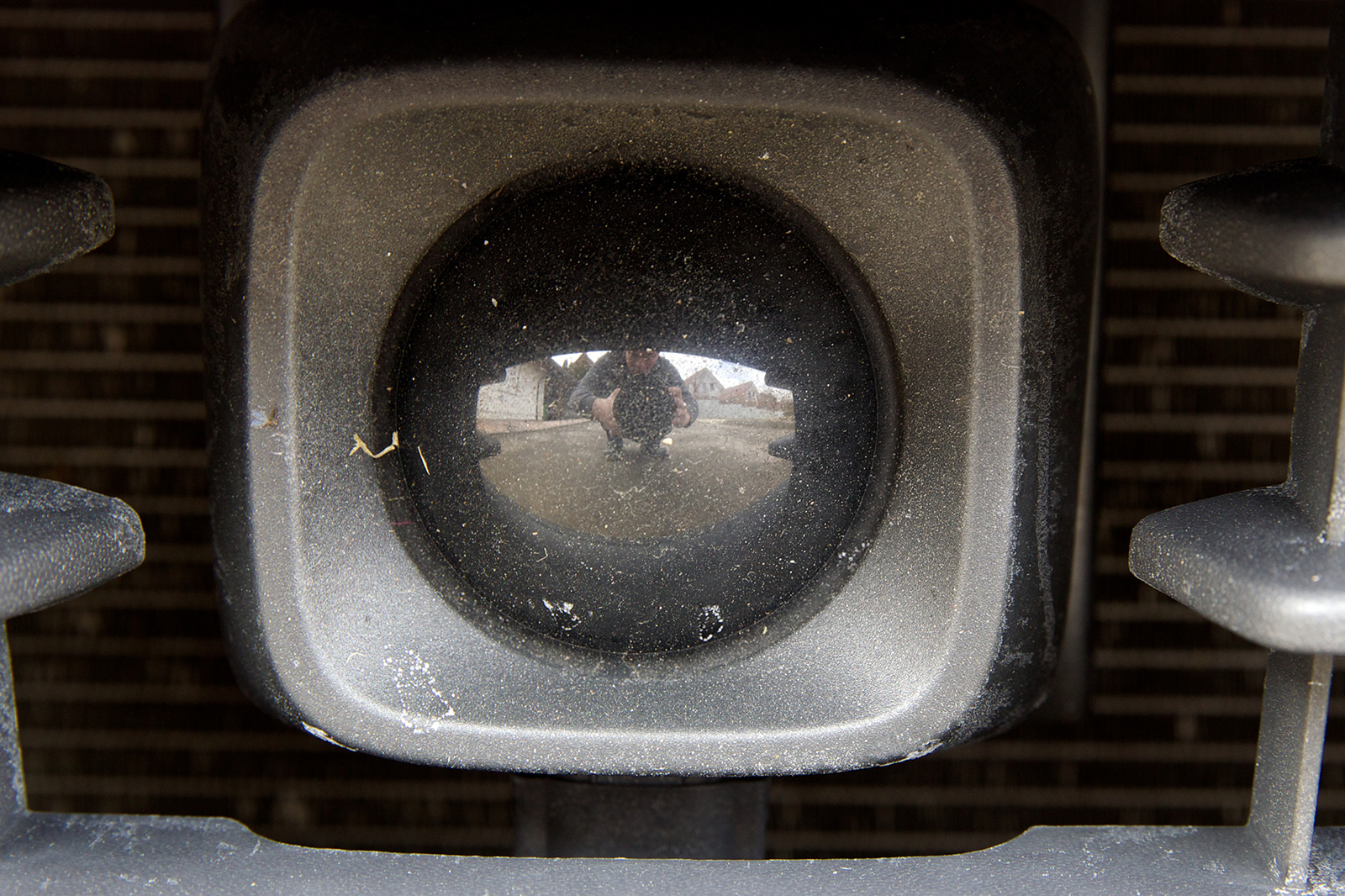 Adaptive cruise control of a VW Golf VII.